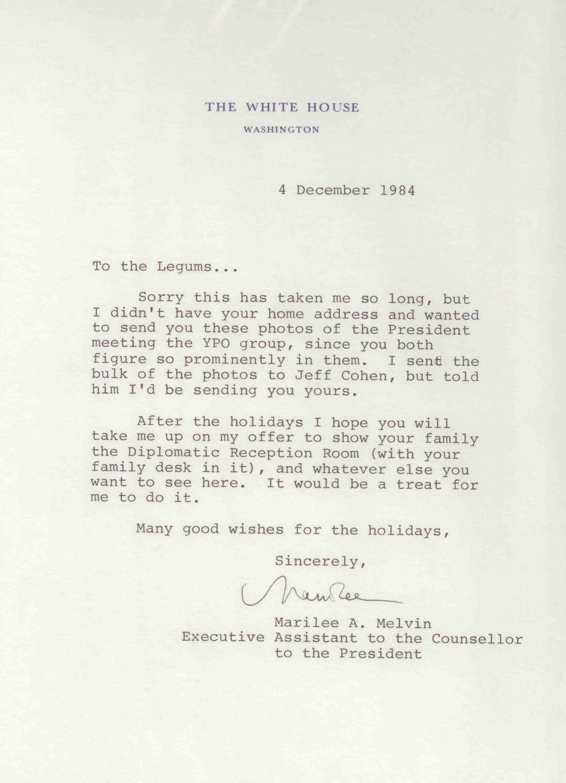 Letter from The White House to the Legums